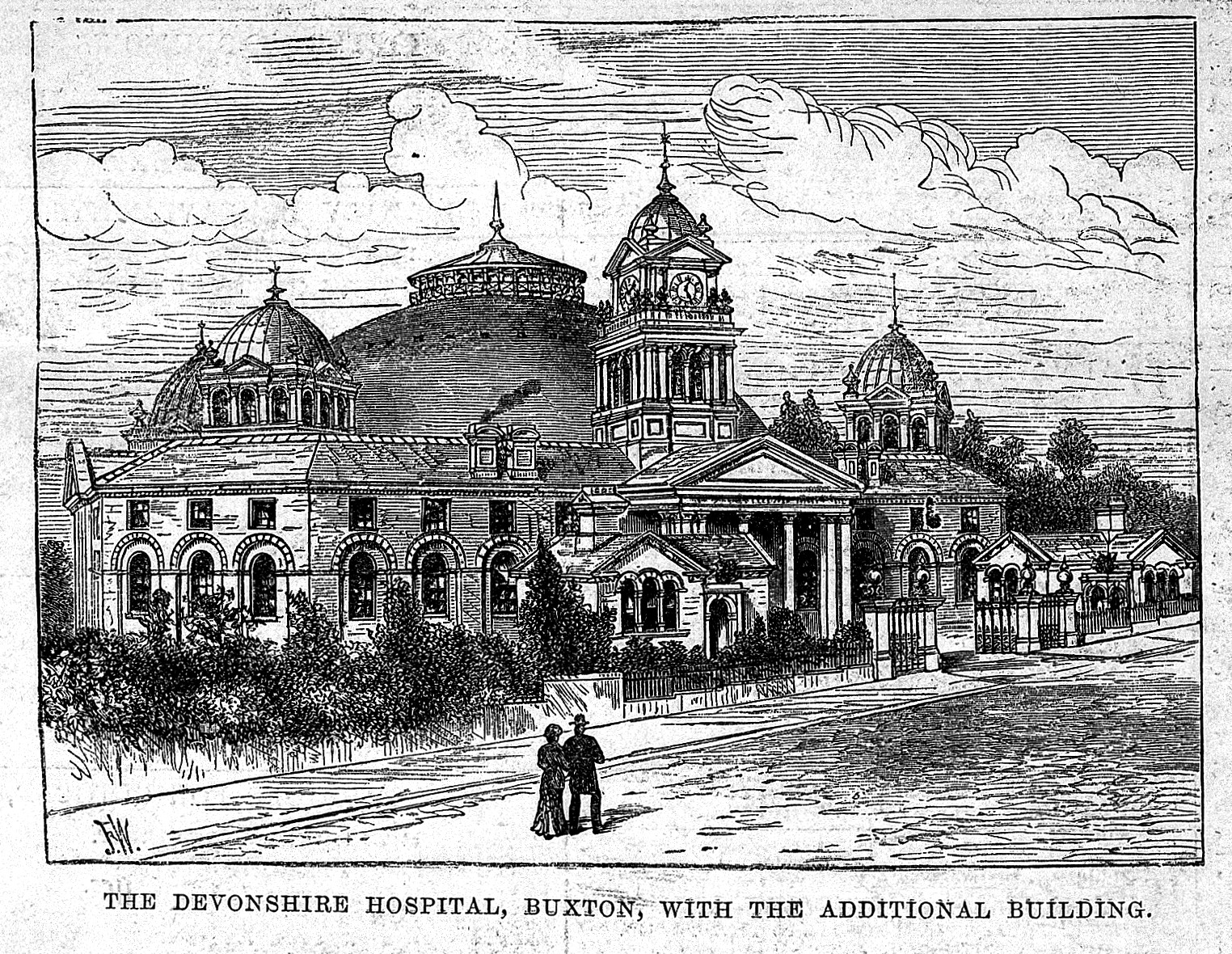 Devonshire Hospital. General Collections Keywords: Institutions